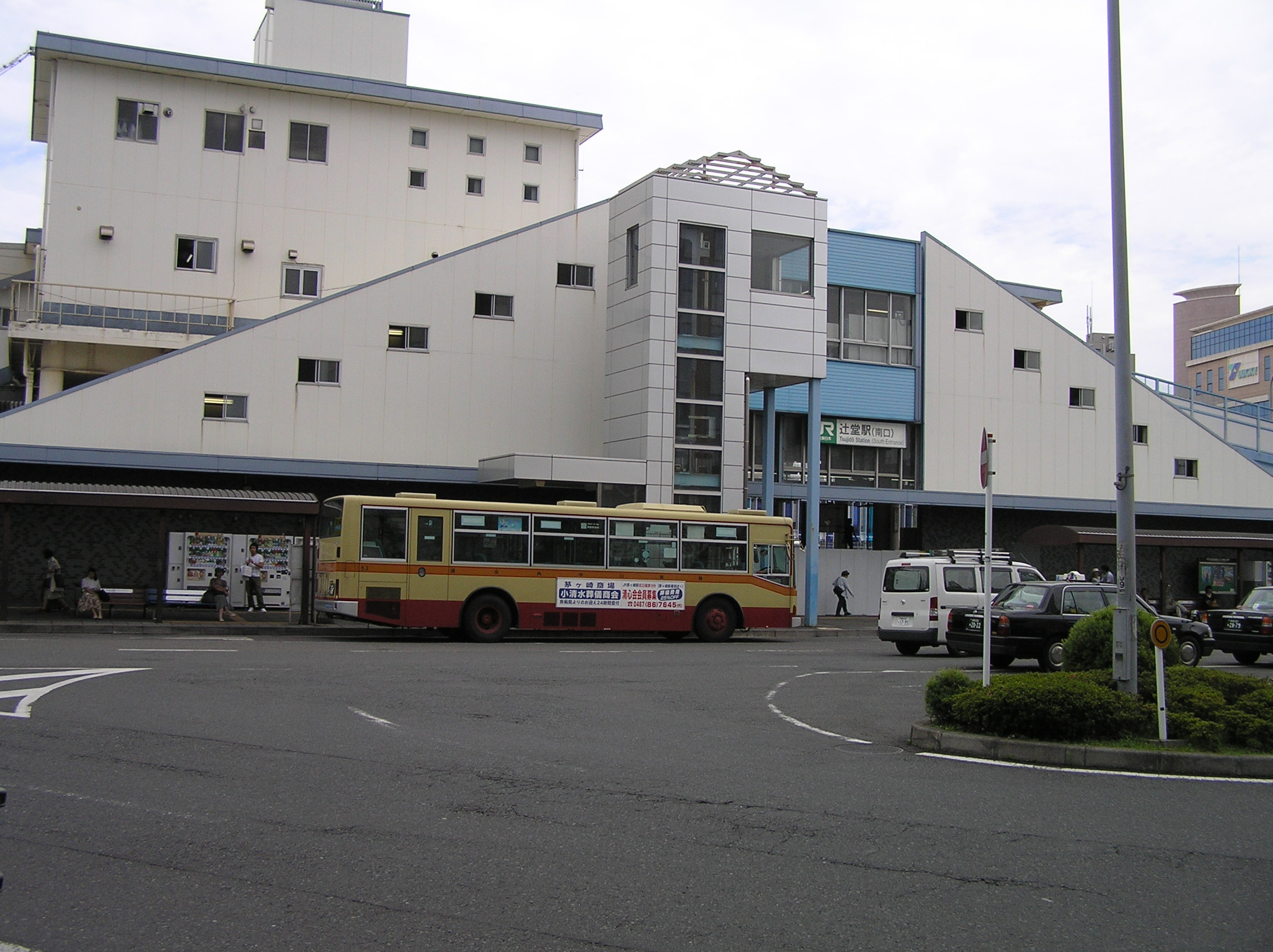 South entrance of Tsujido station.